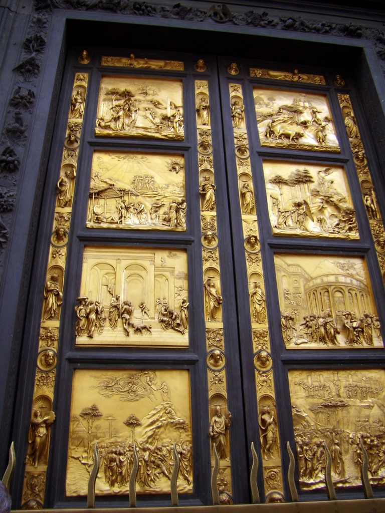 Baptisterium San Giovanni, Eastern gate